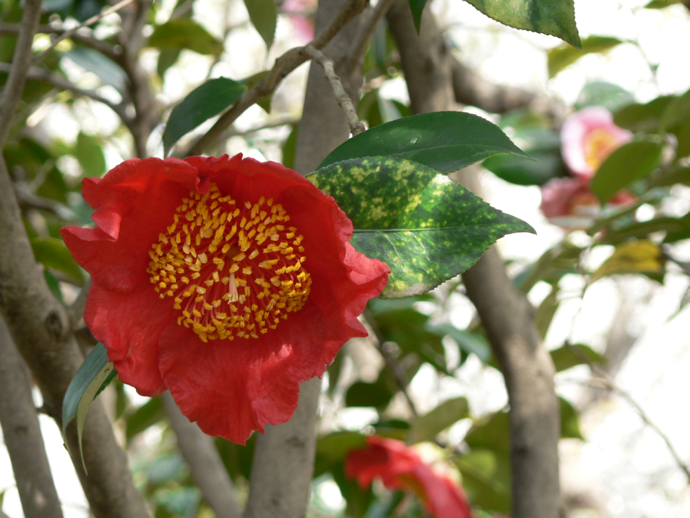 a Higo Camellia, a group of camellia japonica cultivars bred, selected and cherished by Samurais and their families.